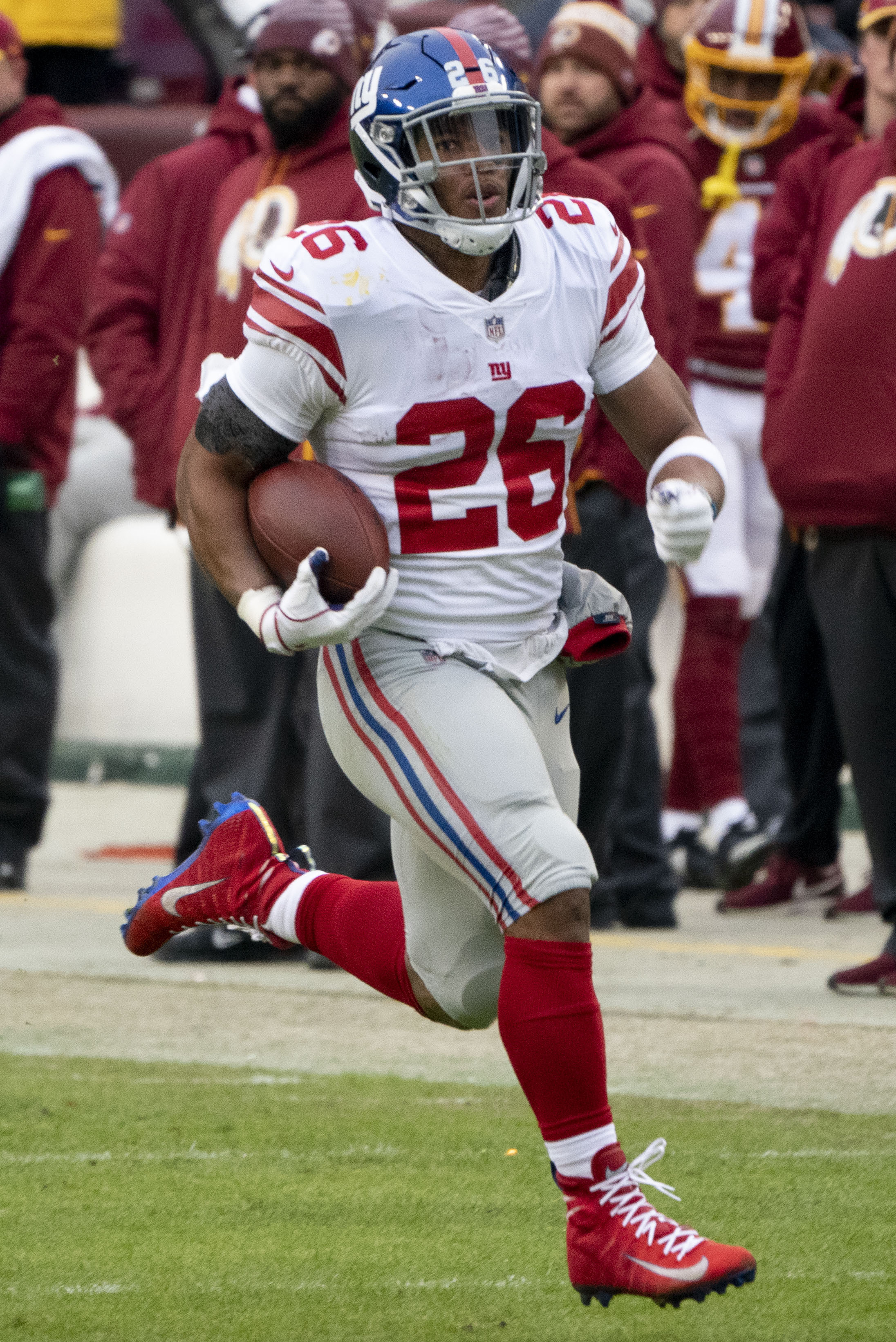 Running back Saquon Barkley of the New York Giants carries the ball in a game against the Washington Redskins at FedExField on December 9, 2018 in Landover, Maryland.